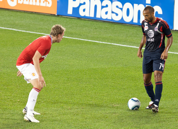 Phil Jones, Thierry Henry